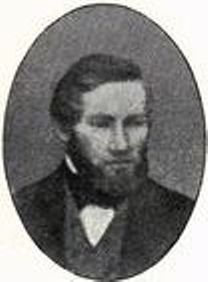 Anders Germund Wikblad (1813-1884), Swedish physician